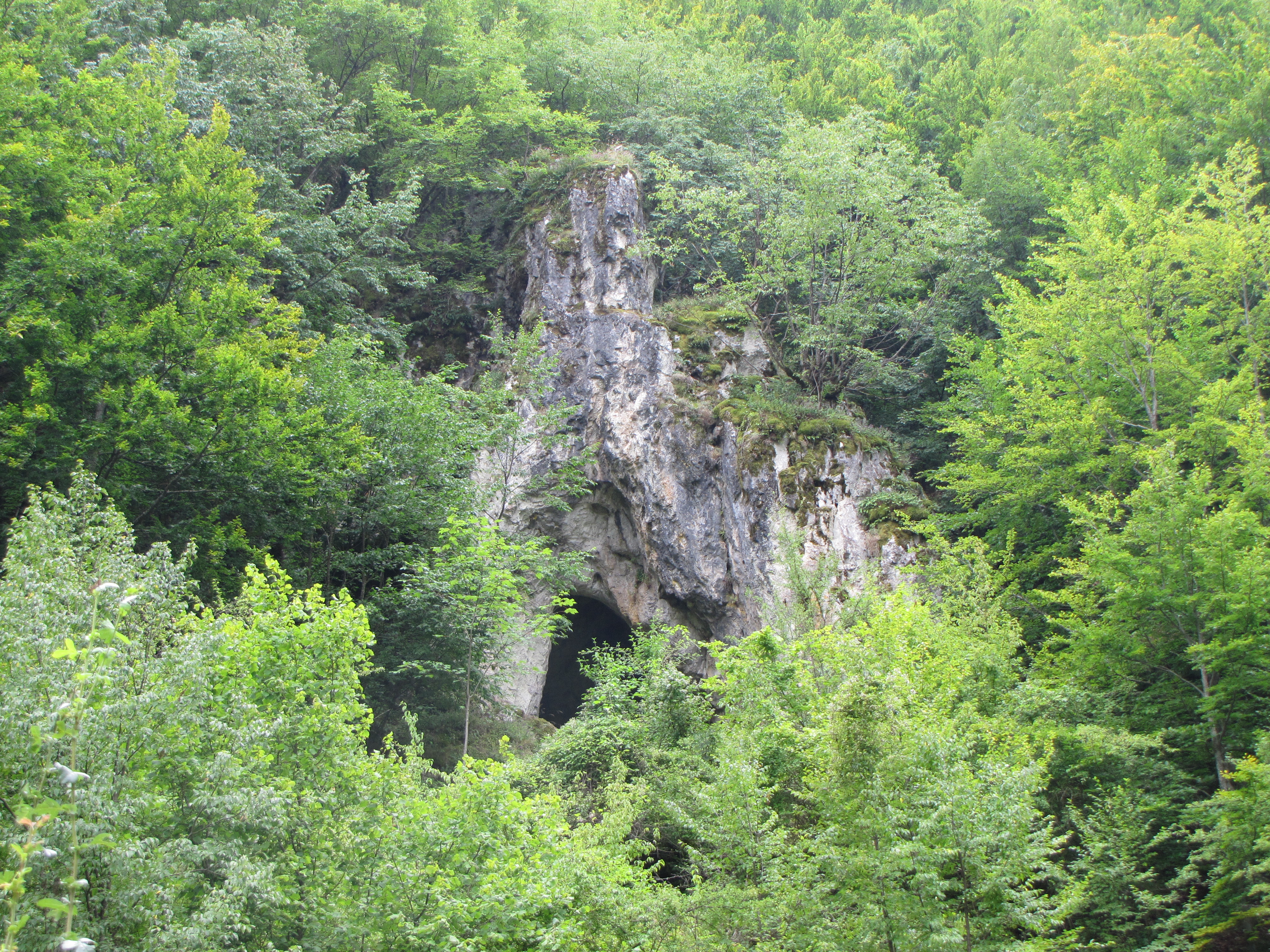 Smolućka cave (SW Serbia)